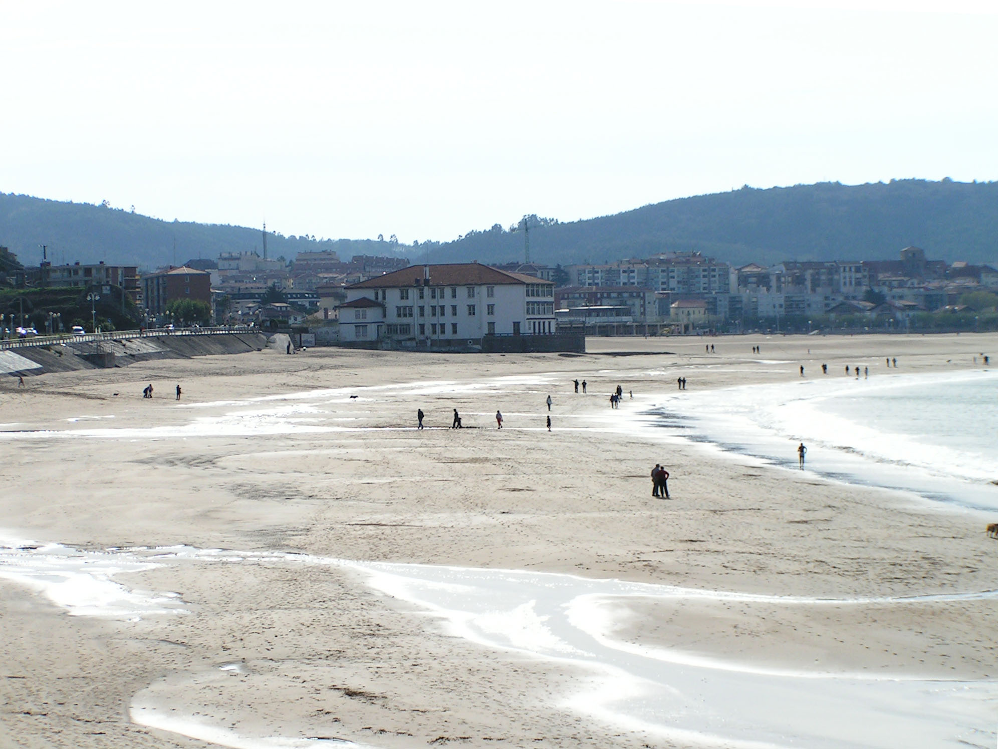 Gorliz eta Plentziako hondartzak / Gorliz and Plentzia beaches, Bizkaia, Biscay, Basque Country, Euskal Herria, Pais Vasco